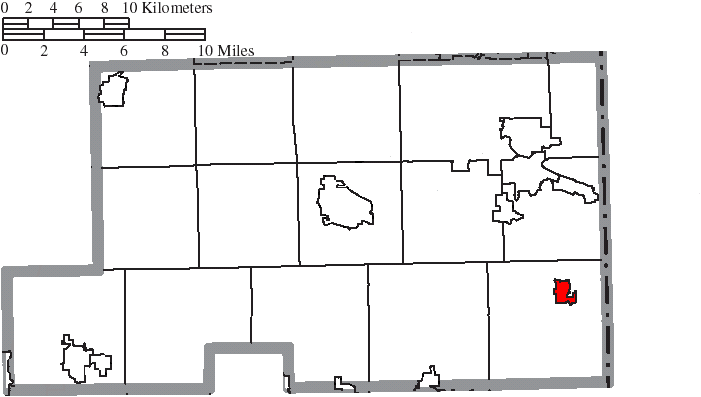 Map of the municipal and township boundaries of Mahoning County, Ohio, United States, as of the 2000 census, with the location of the village of New Middletown highlighted. Township borders are shown only in unincorporated areas in order to differentiate incorporated and unincorporated areas more clearly.